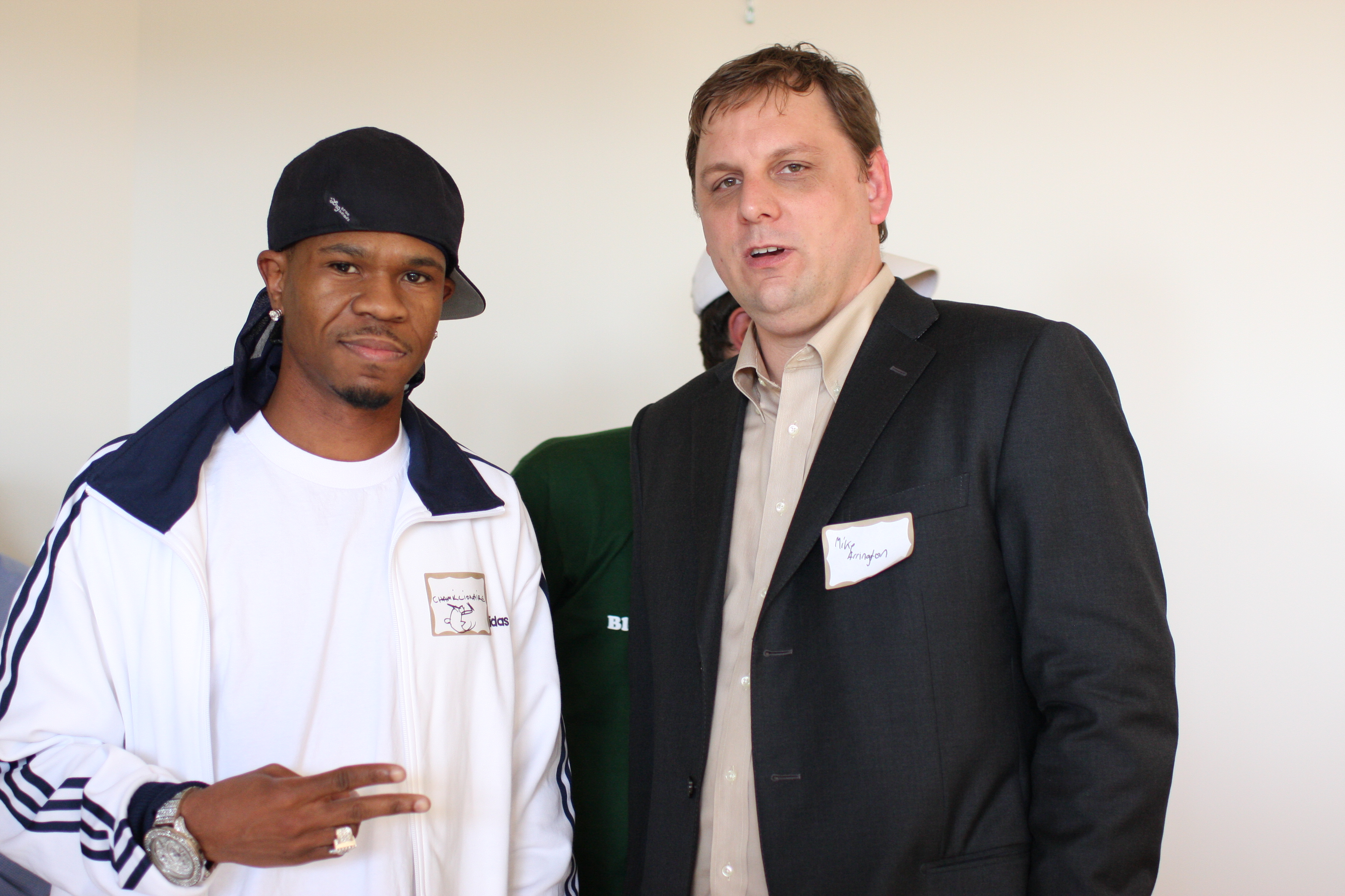 Chamillionaire and Michael Arrington. (CC) Brian Solis, and .